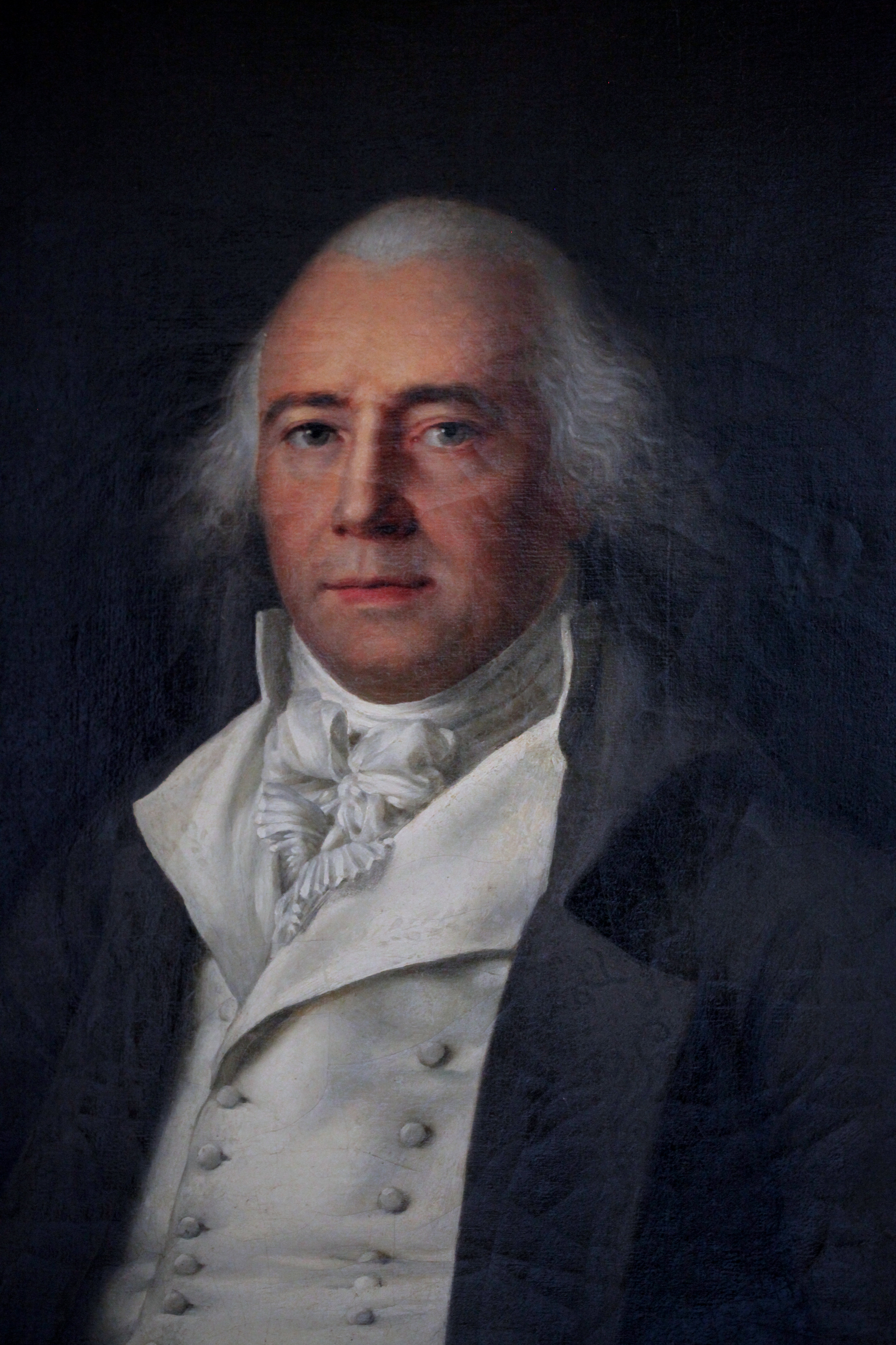 Portrait of Étienne-François Letourneur. Bought in 1986 on funds of the Région Rhônes-Alpes.